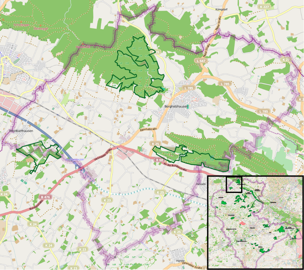 Nature reserves in Borgholzhausen - overview map Number and borders of nature reserves are subject to frequent change. In order to facilitate reproduction of this map from openstreetmap, the following data is stored here: export boundaries: north: 52.137; west: 8.2; south: 52.043; east: 8.372 mapnik svg, scale 1:70.000 nature reserve boundary stroke weight 3.5; nature reserve stroke color: R 5, G 102, B 36; district border stroke weight: 20